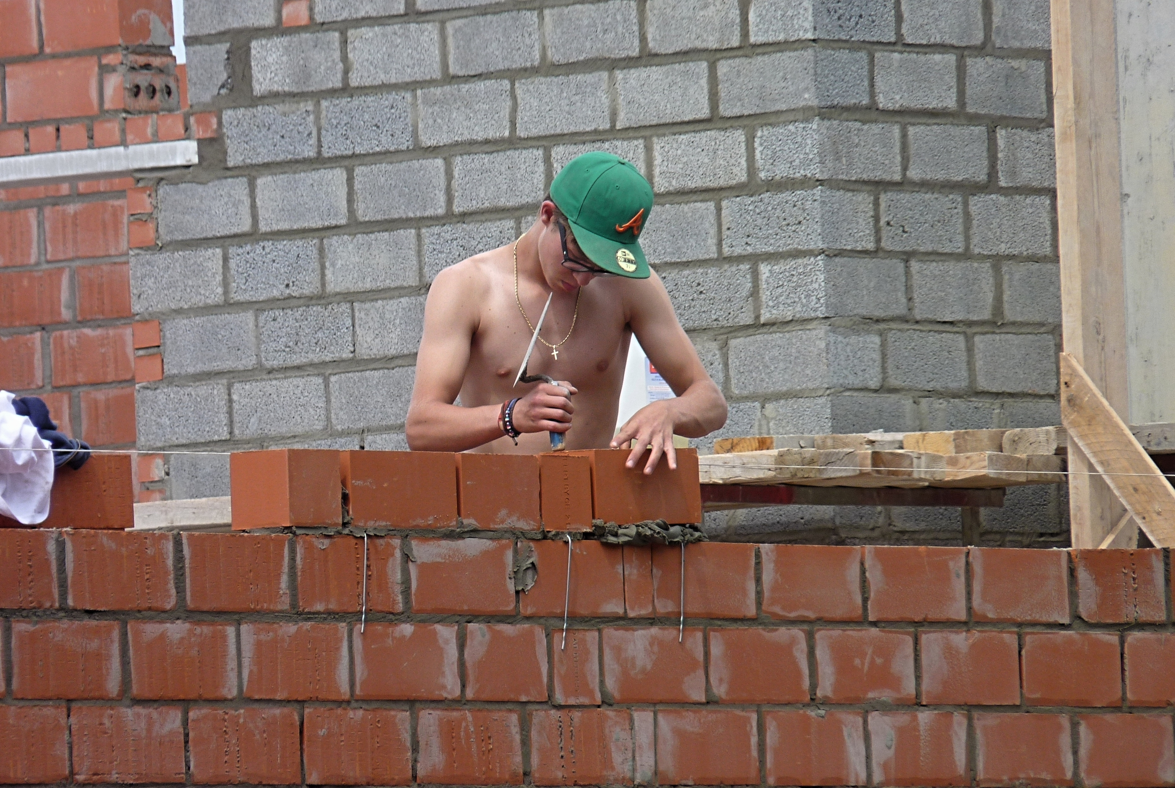 Bricklayer or mason at work on a construction site in Belgium.